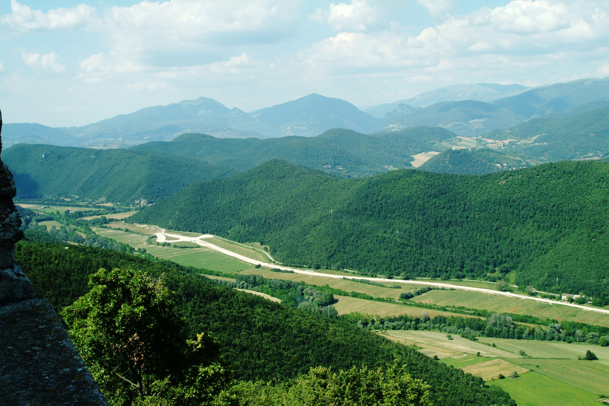 Velino river's valley near the village of Piè di Moggio (province of Rieti, Italy), shortly before the Marmore Falls and the border with province of Terni (Umbria). It is possible to see road works for the construction of the Rieti-Terni highway, with the sediment still to be paved and the unborn Marmore-Piediluco interchange.